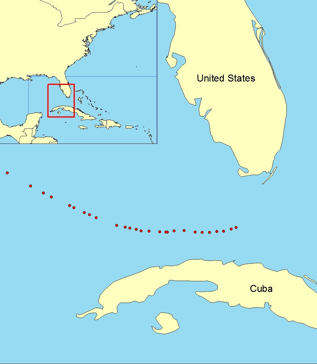 Cuba–United States Maritime Boundary